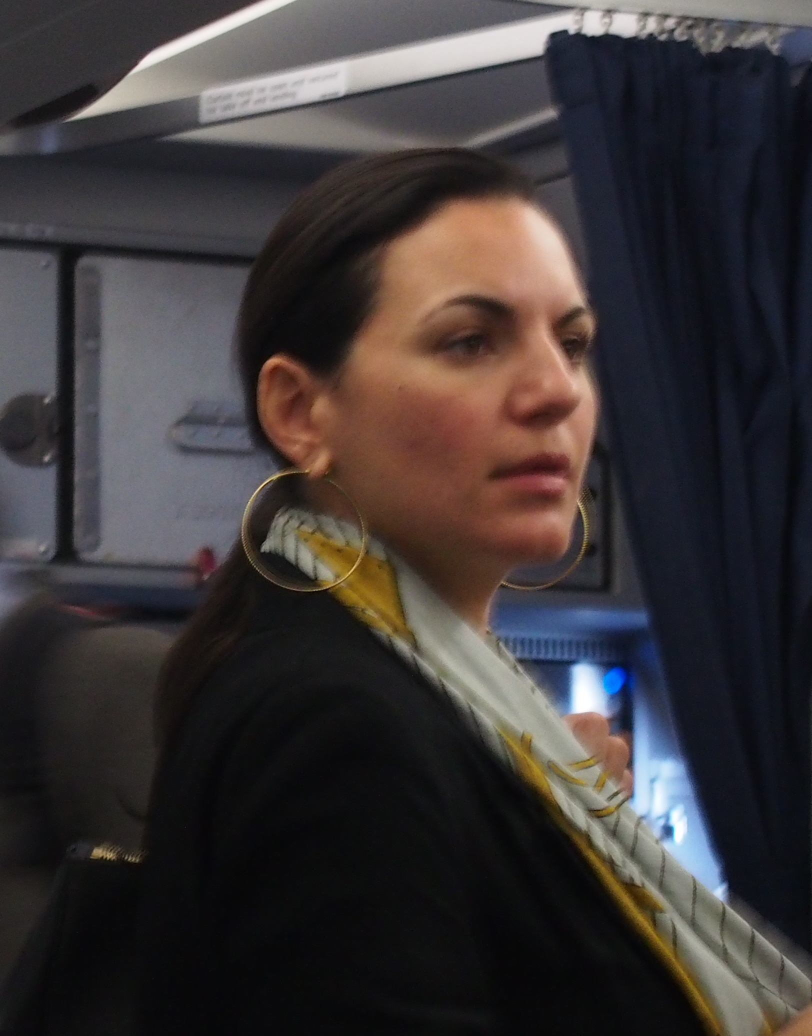 Olga Kefalogiani in flight to Heraklio for a meeting about tourism in 18-11-2014